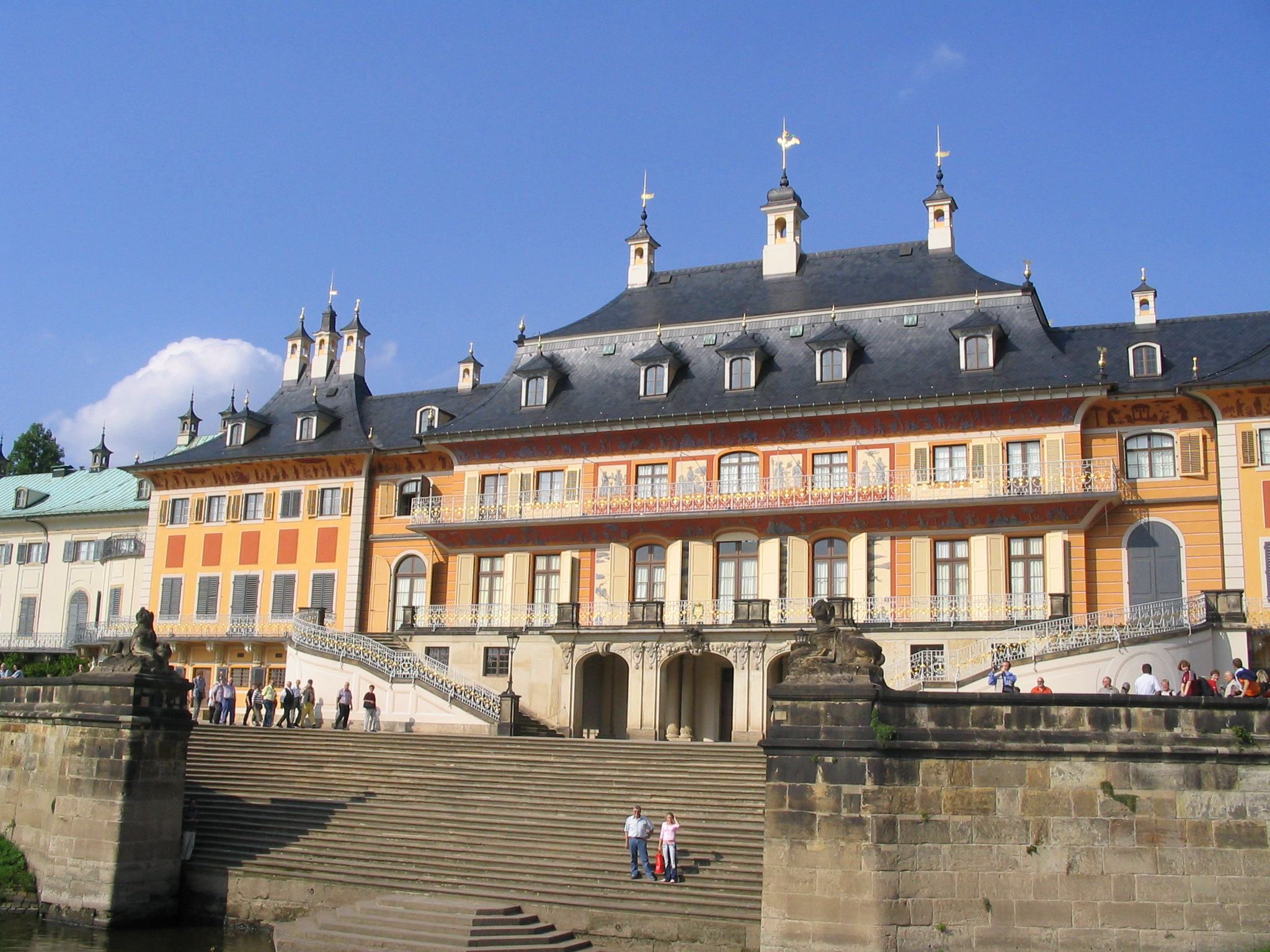 Pillnitz Castle, water palace view from the Elbe